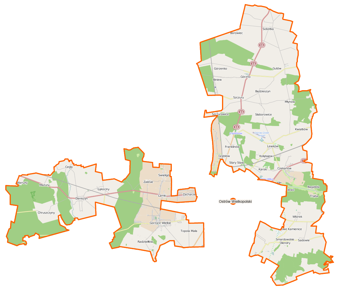 Map of Gmina Ostrów Wielkopolski, PolandThis map of Ostrów Wielkopolski (gmina wiejska) was created from OpenStreetMap project data, collected by the community. This map may be incomplete, and may contain errors. Don't rely solely on it for navigation.